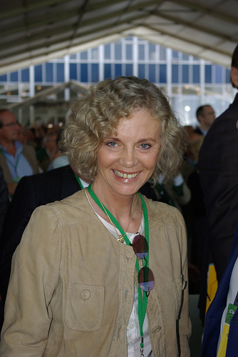 Elisabeth Guigou.